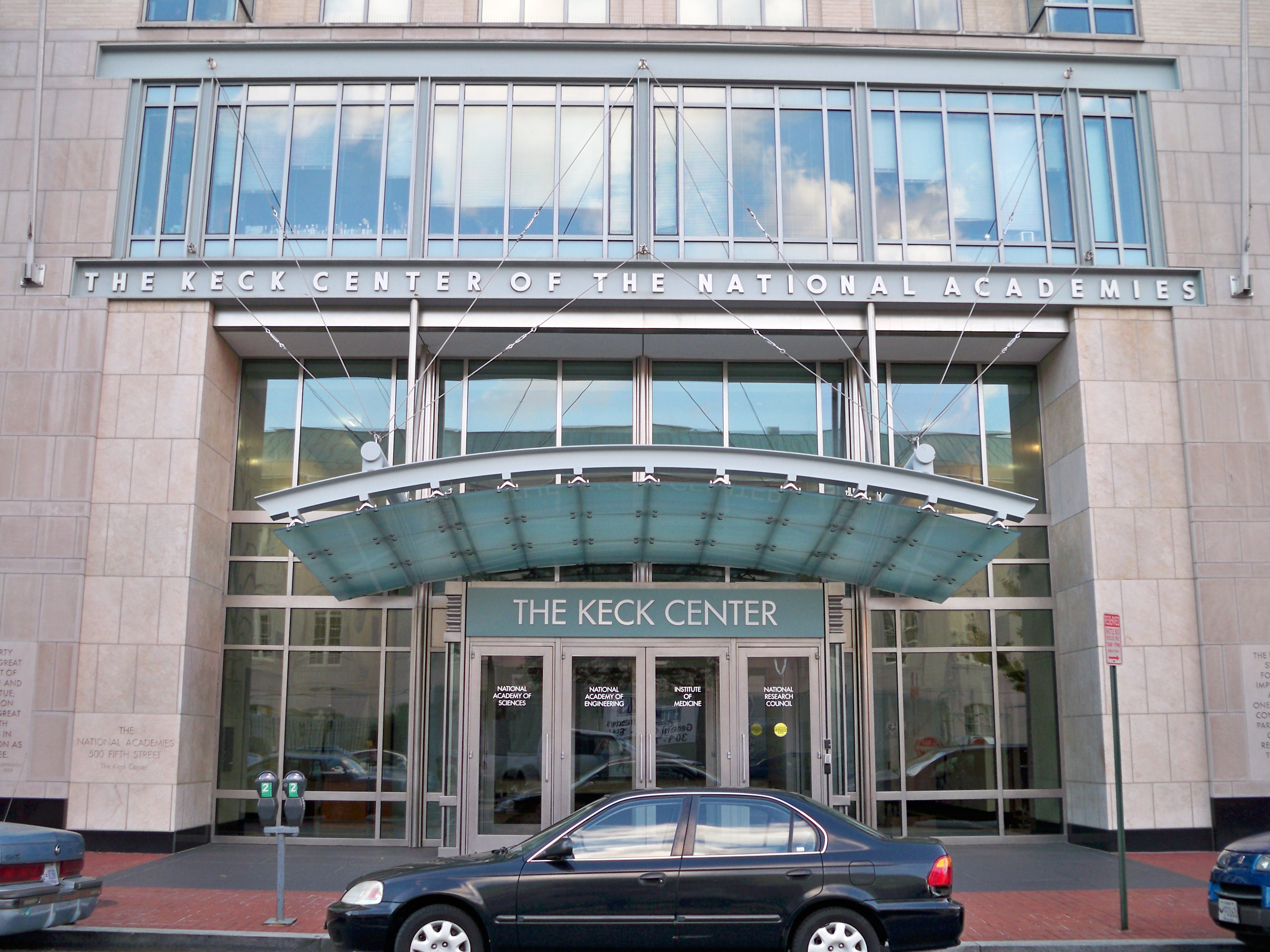 The headquarters of the National Academies in Washington, DC.